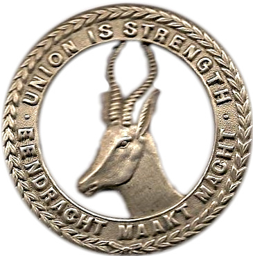 cap badge worn by members of the 1st South African Infantry Brigade who served alongside the Allies on the Western Front during World War I. Motto Eendracht Maakt Macht still in Dutch. Later replaced by the Afrikaans version Eendrag Maak Mag.